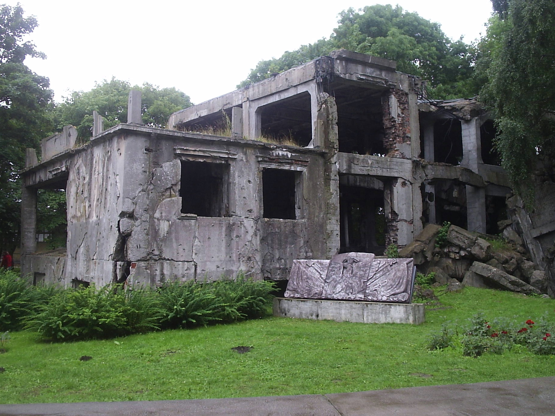 Gdańsk Westerplatte, Poland, the barracks.